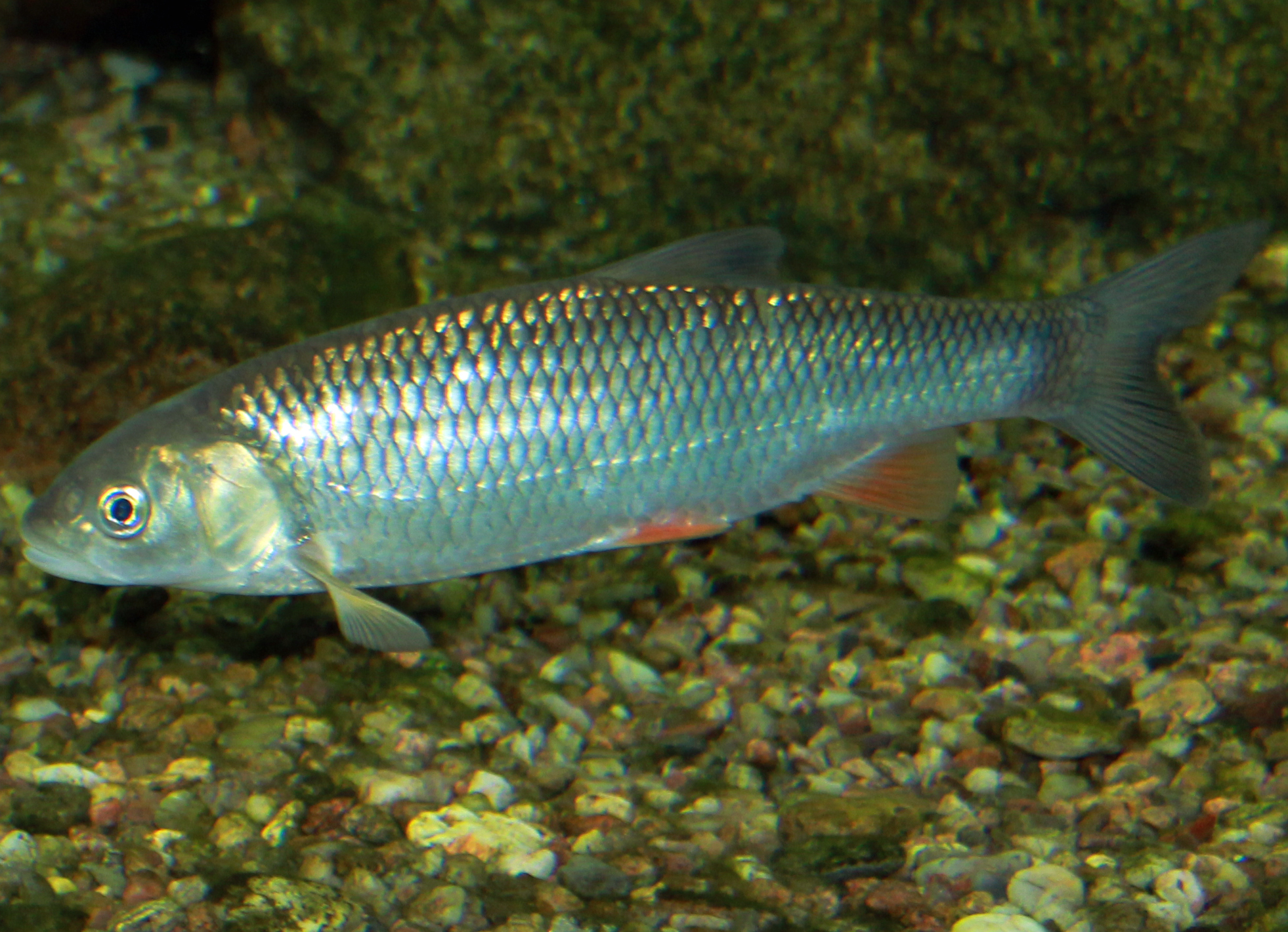 European chub on exhibition Subaqueous Vltava, Prague 2011, Czech Republic